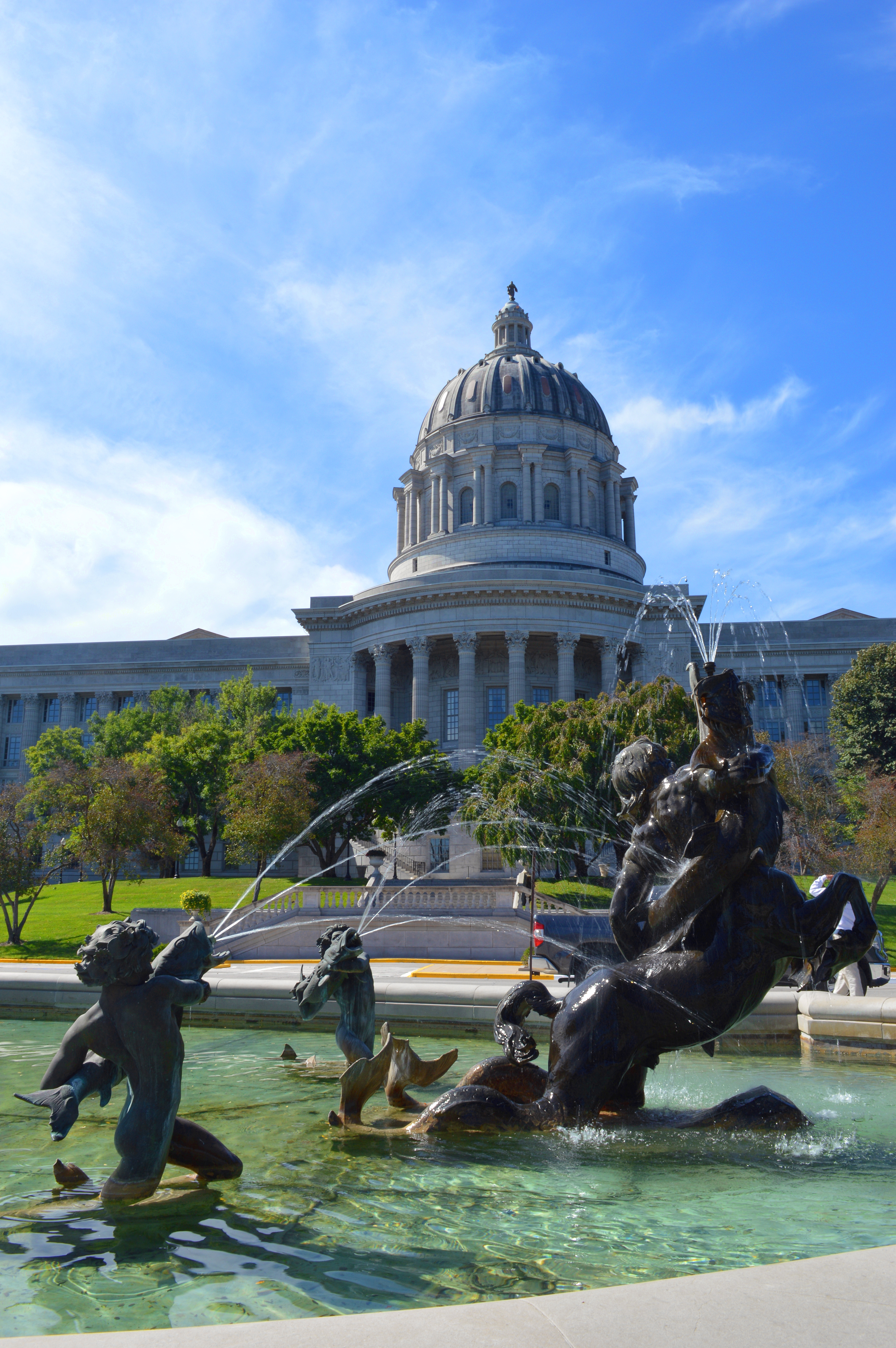 North side of the Missouri State Capitol building and portion of the Fountain of the Centaurs